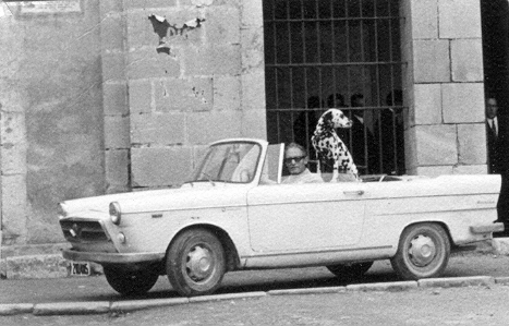 With his car and his dalmatian dog